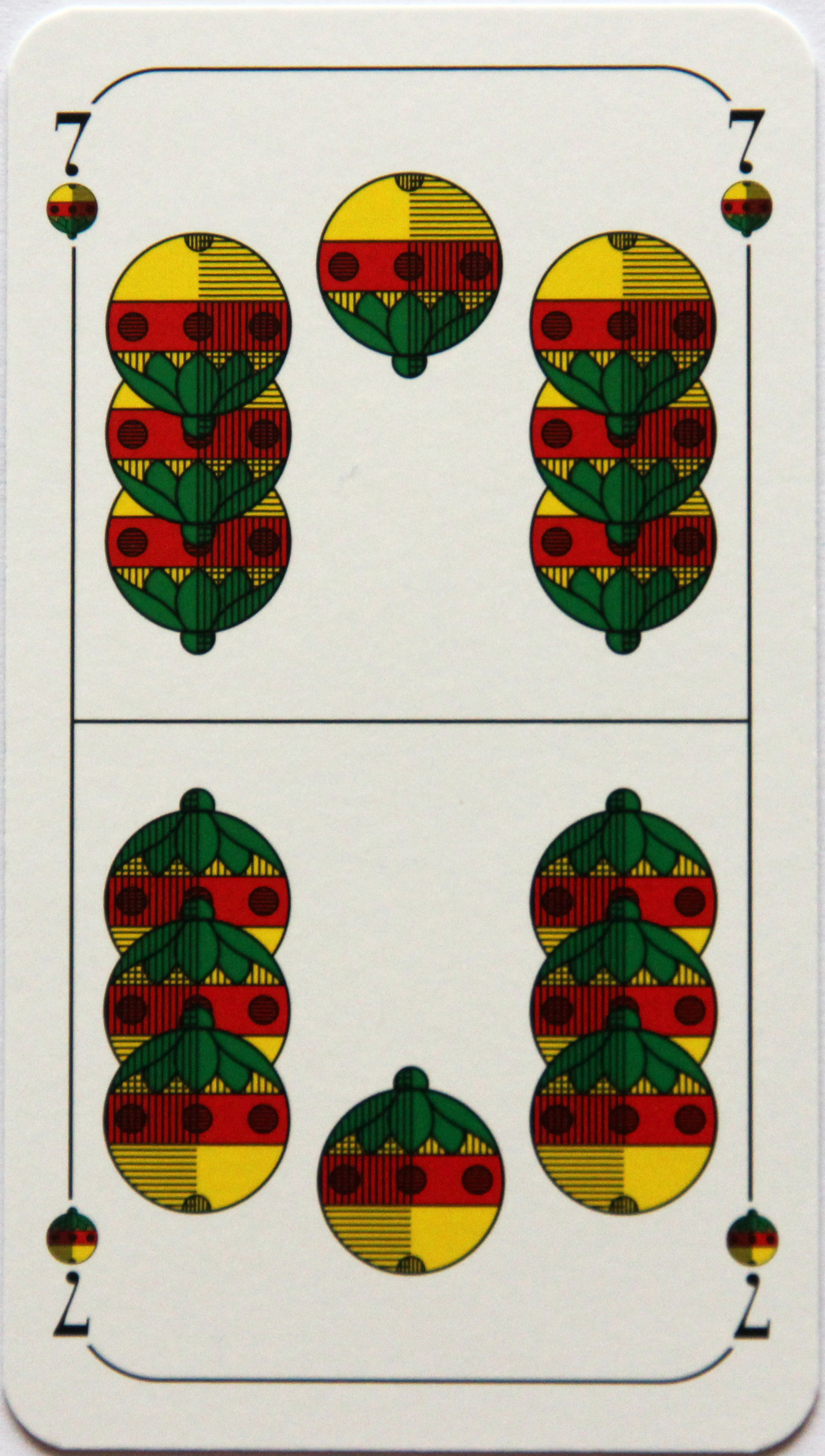 The Seven of Bells from a Bavarian-pattern, German-suited pack